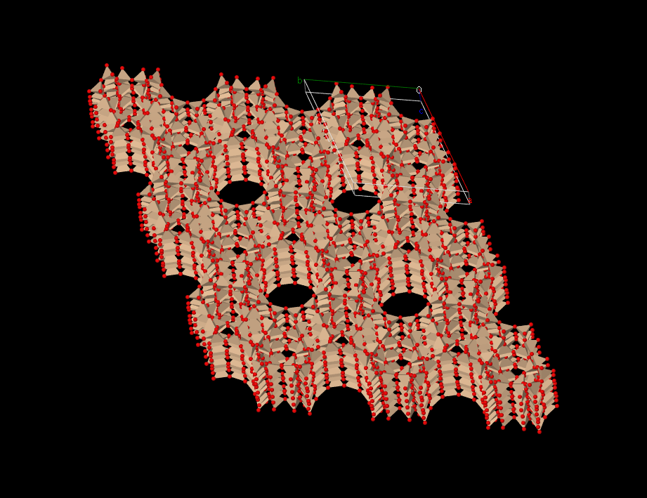 Rendering of the hypothetical zeolite 191_4_5828 from the Atlas of Hypothetical Zeolites.